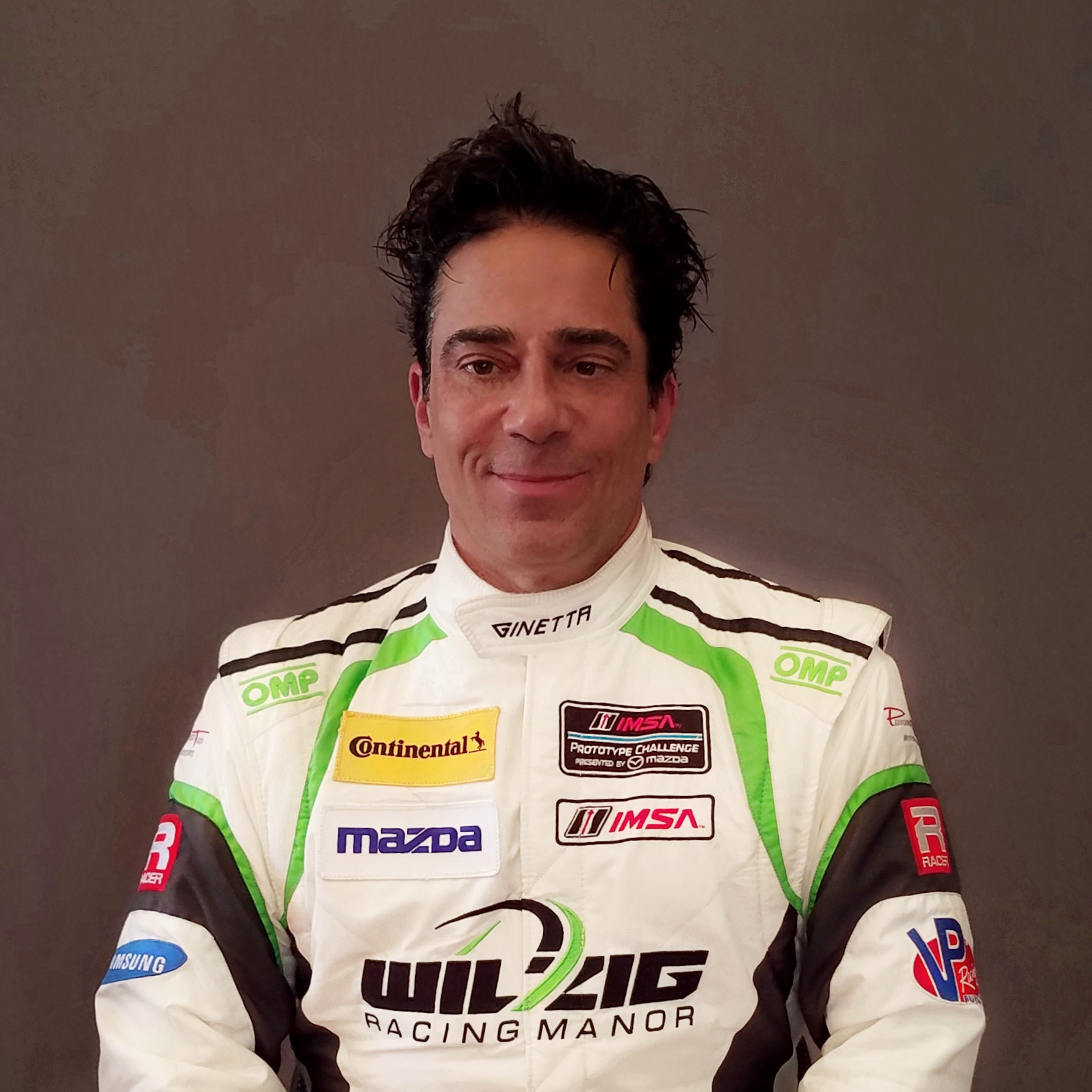 A 2017 self-portrait of American entrepreneur Alan Wilzig, taken in Sebring, Florida, using a timer on the camera.